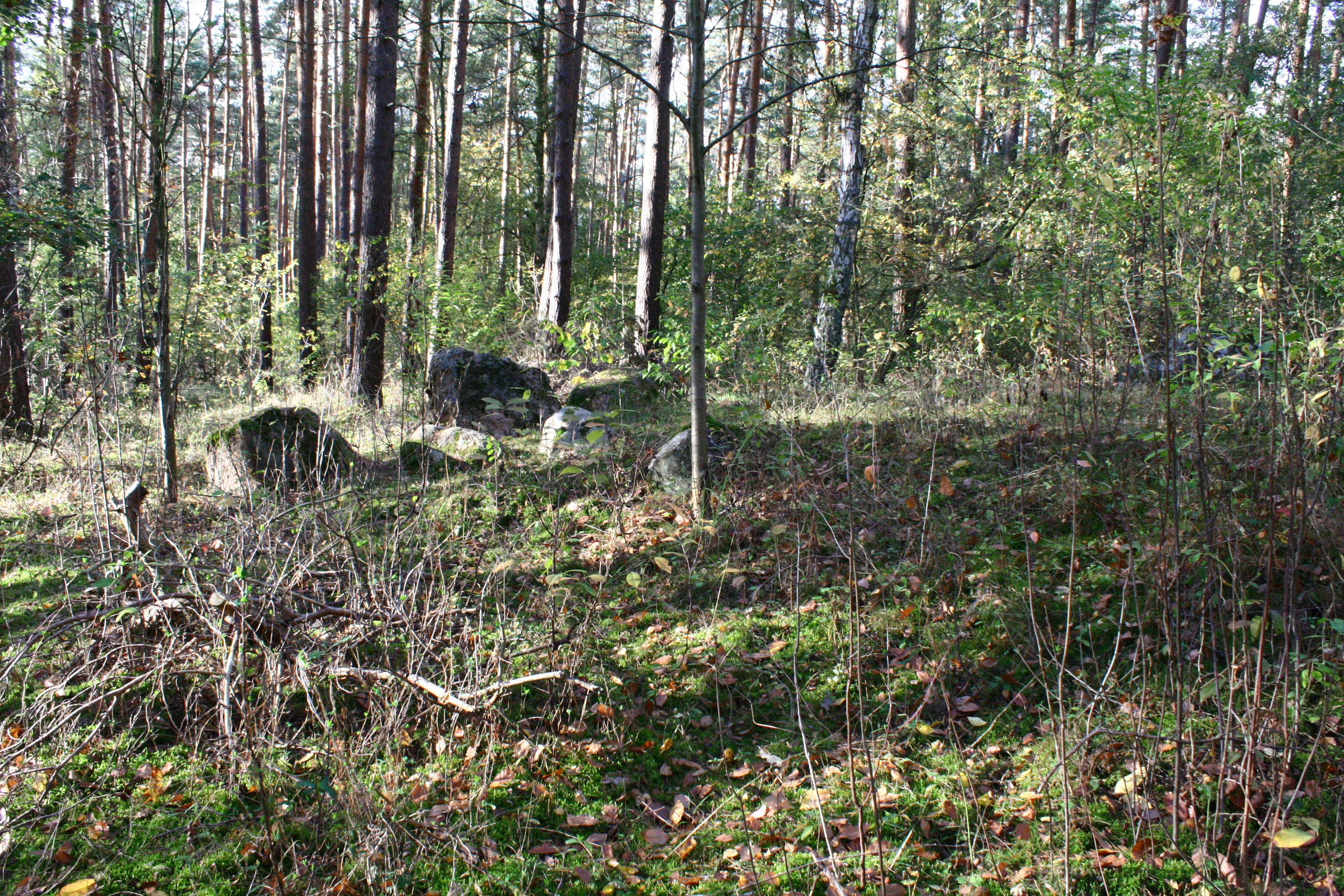 Megalithic tomb Haldensleben II 19